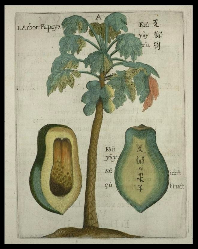 One of the earliest natural history books about China. Jesuit Missionary author. (obviously includes some non-Chinese {and non-floral} species)